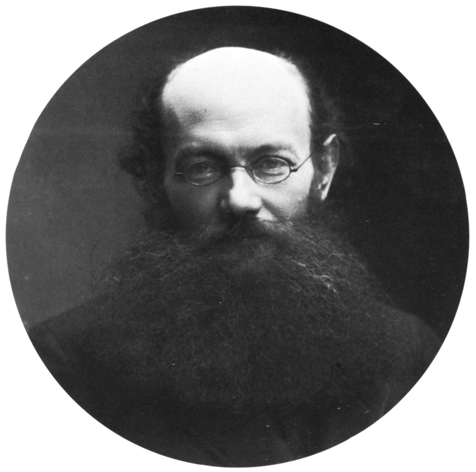 Kropotkin's photo by Nadar